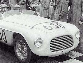 Ferrari 166 s/n 0024MB at the 1950 Mille Miglia where it crashed and was rebuilt as "The egg" with a totally different body. Drivers in this race were Umberto Marzotto and Franco Cristaldi.[1]